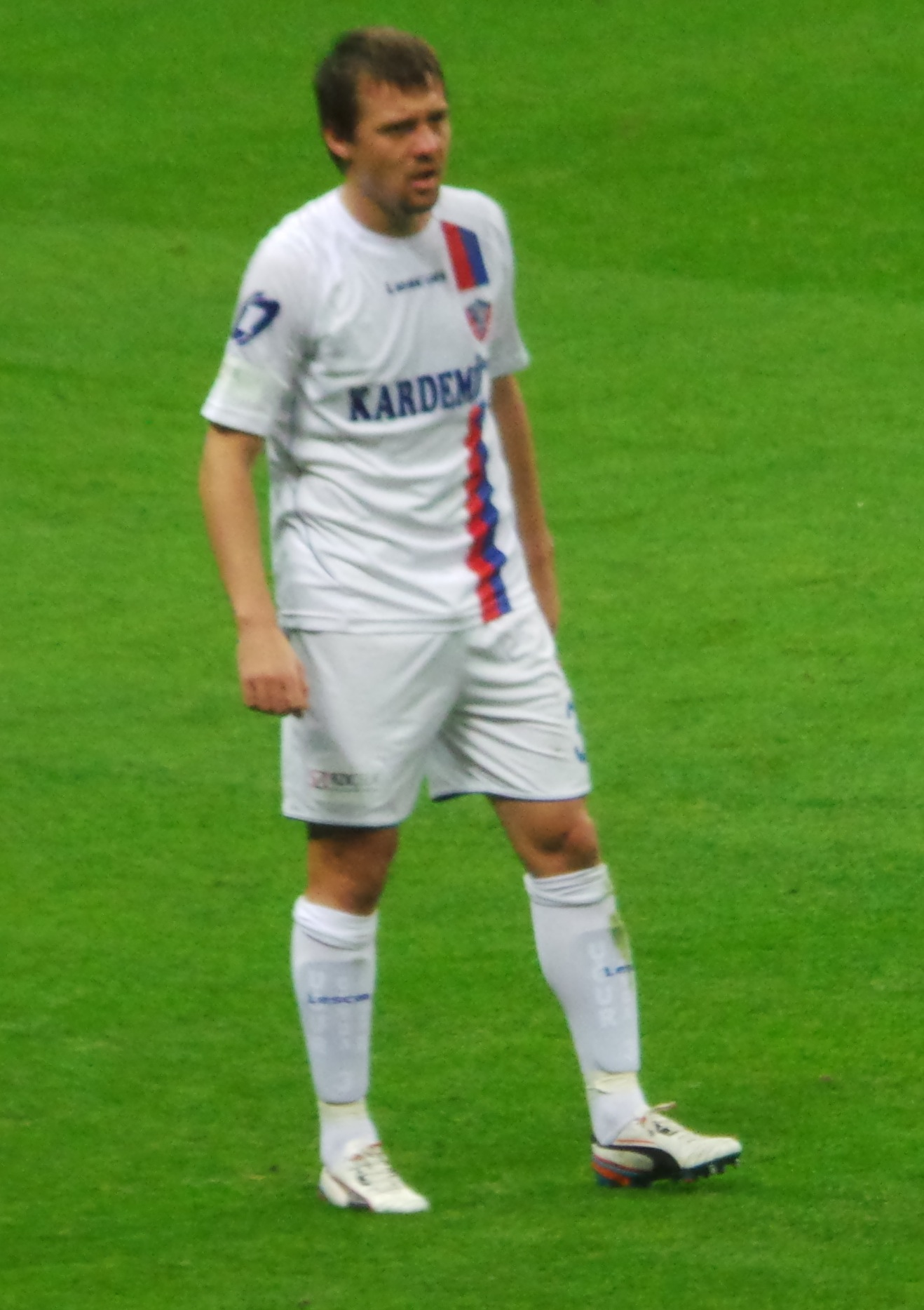 Uğur v.s. G.S.